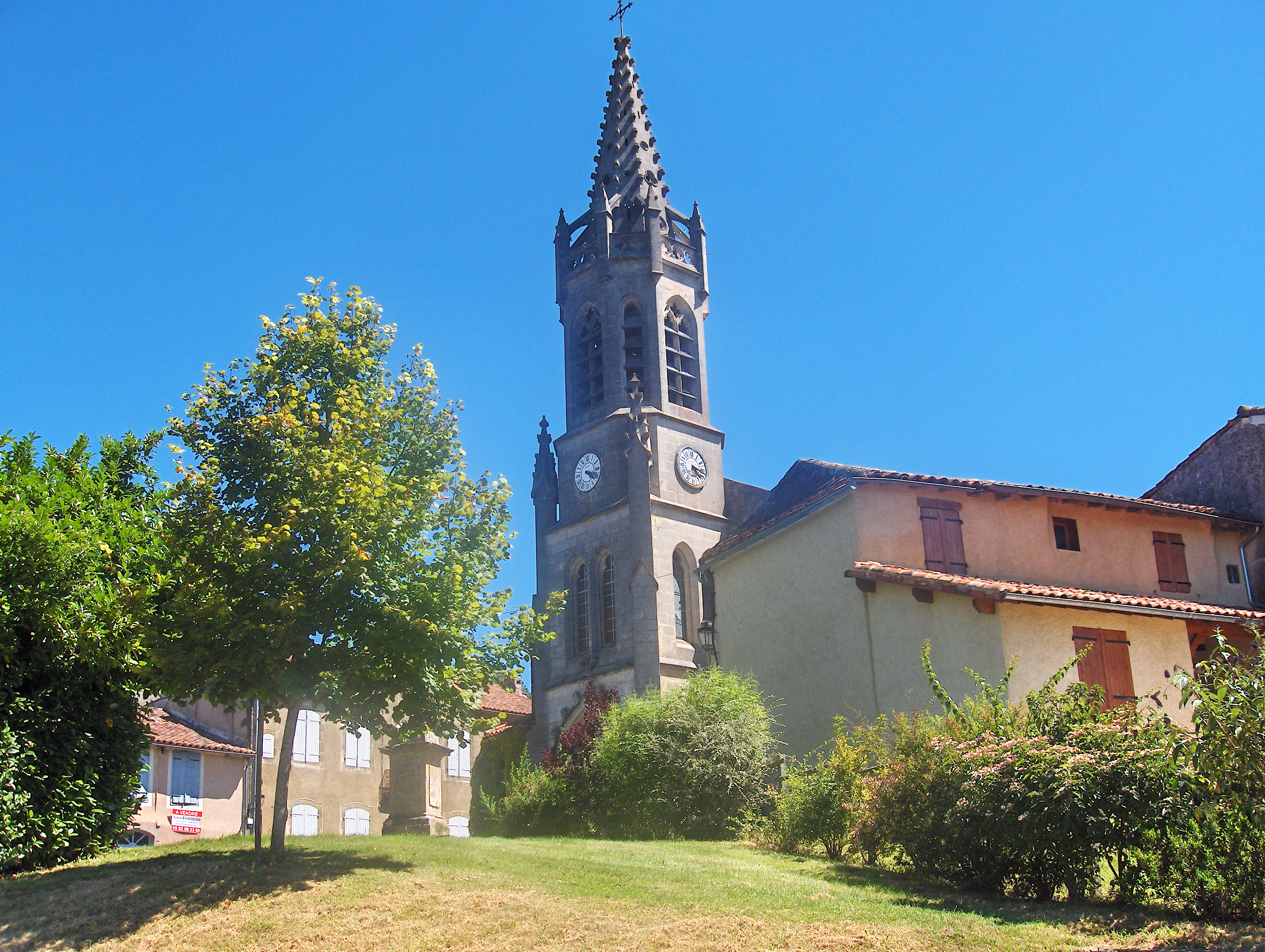 City Lupiac in the Gers